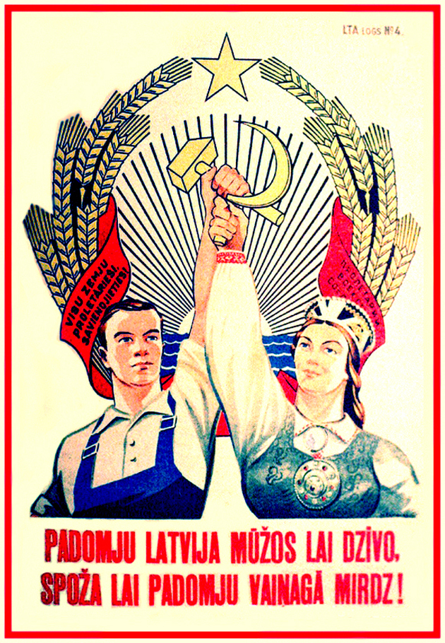 Riga, Latvia, 1945. Error in the image of the coat of arms - In the emblem of the Latvian SSR, the hammer should be located above the sickle.